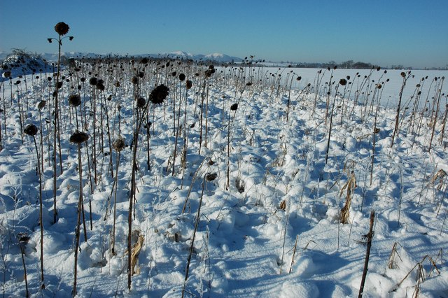 Dead sunflowers in the snow. Dead sunflowers in a field near Dunstall Farm. The snow covered Malvern Hills are on the horizon. See 1636350 for a similar view from this spot just over two weeks earlier.